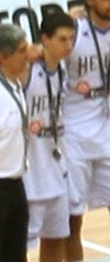 Image of Dimitris Diamantidis cropped from Image:Basketball WC 2006 Final 3.jpg